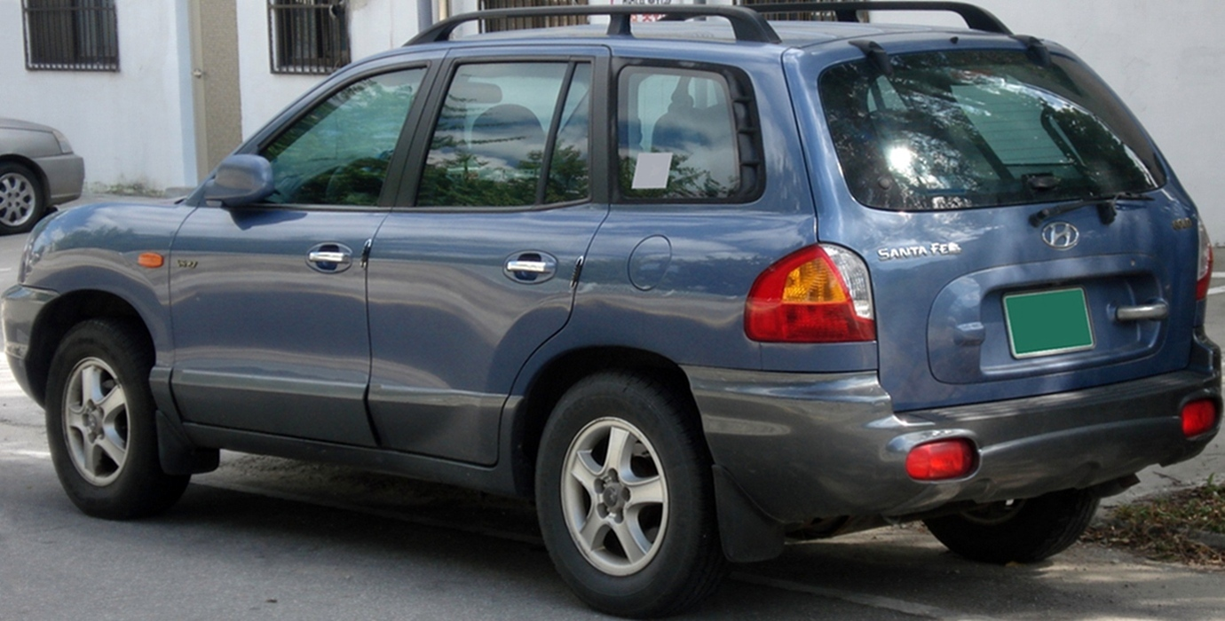 Hyundai Santa Fe